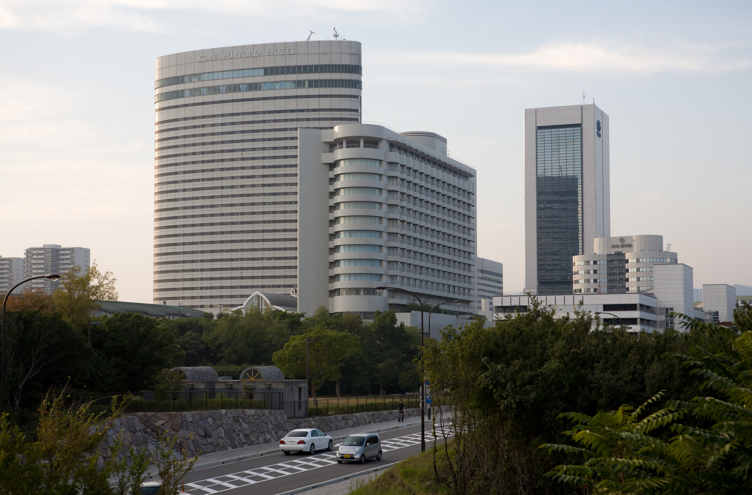 Port Island at sunset. Kobe Portopia Hotel can be seen.